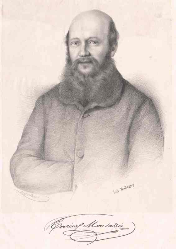 portrai of journalist Enrico Montazio